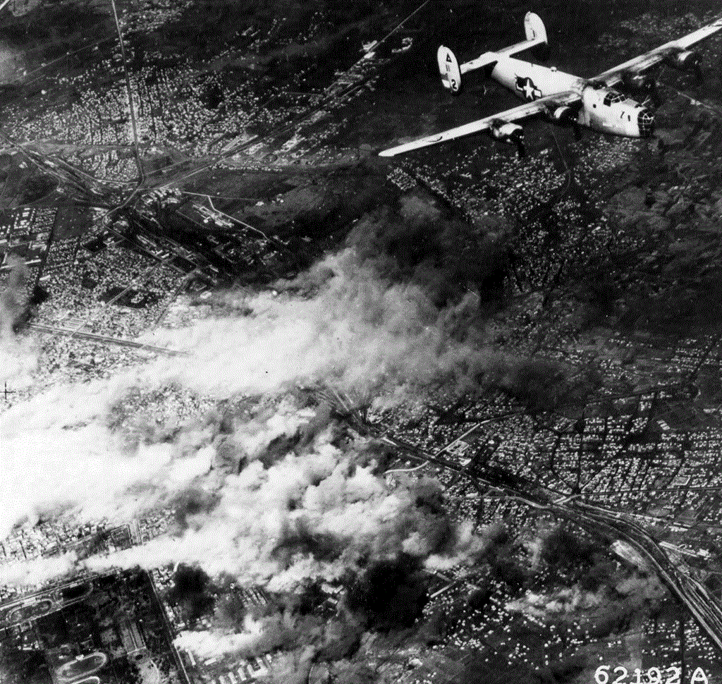 USAAF 376th Bombardment Group over Sofia, Bulgaria, after an attack on the city. In the lower left Wolf Stadium can be seen along with Lake Ariana and a racetrack. Possibly taken 17 April 1944. Originally identified as a picture of a 456th Bombardment Group B-24, the markings on the aircraft are those for the 376th. United States Army Air Forces photograph via US National Archives